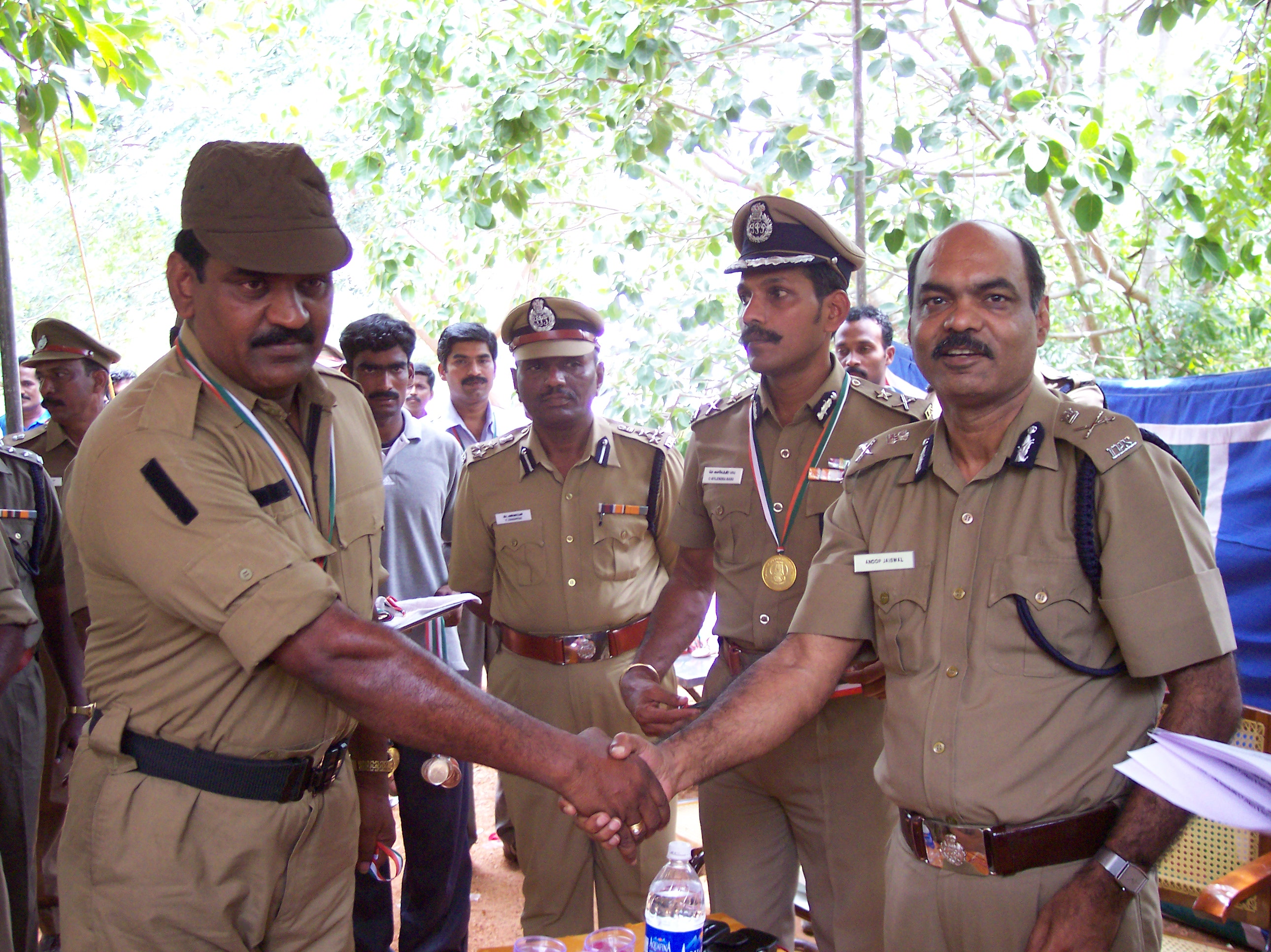 SHOOTING 2.